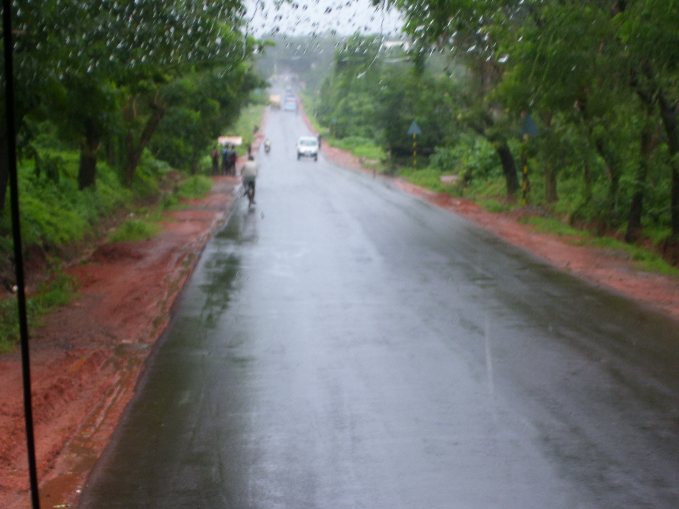 National Highway 17 at Uttara Kannada district of Karnataka state.